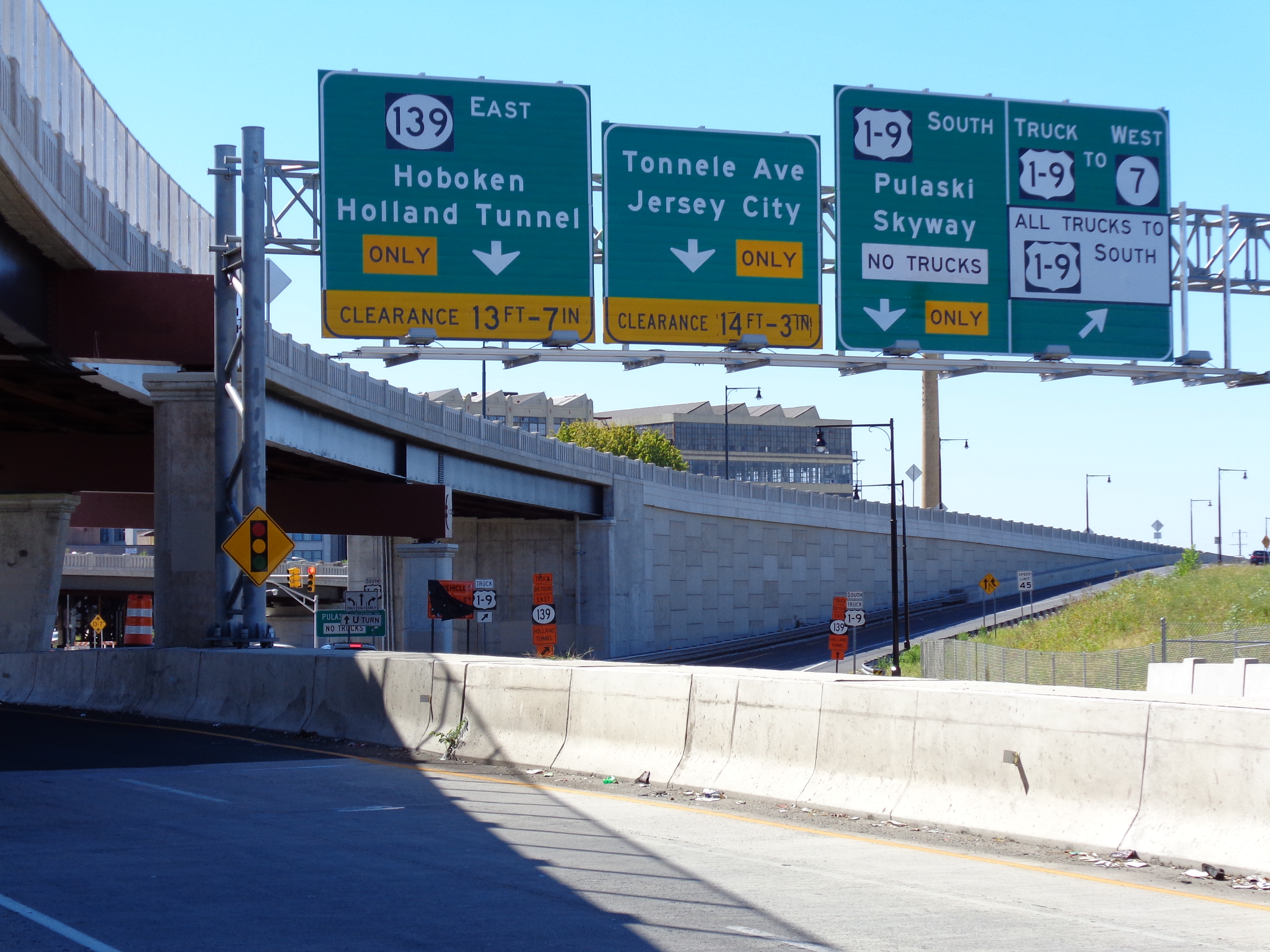 USRoute1/9 bypass north of Tonnelle Circle with northbound overpass and new alignments for Wittpenn Bridge replacement and Pulaski Skyway, whose architectural style it follows